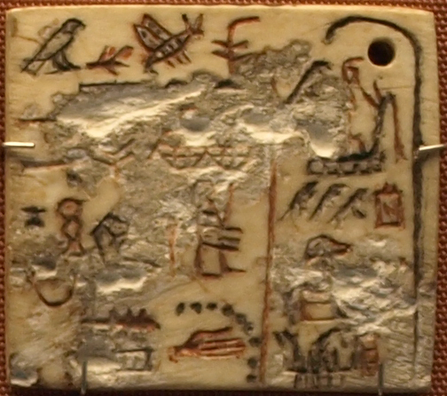 Ivory label of the Pharaoh Semerkhet, circa 2900 BC. Originally a label for an oil container, it also references a religious festival in a specific year of his reign. (The Pharaonic festival became the Sed festival.) EA 32668.Semerkhet's 9 year reign may be from ca. 2920 to 2900(or lower?); see List of pharaohs.